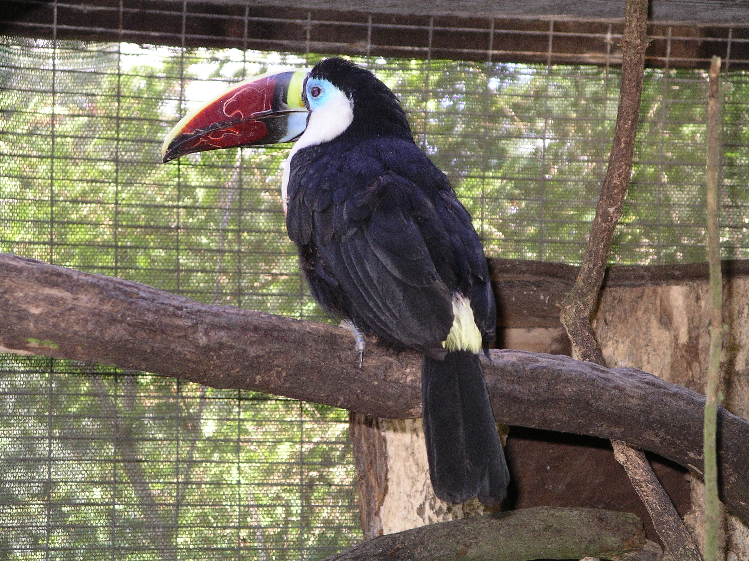 photo of a Red-billed Toucan Ramphastos tucanus in Tropical Birdland, Leicestershire, England. It is also called White-fronted Toucan.